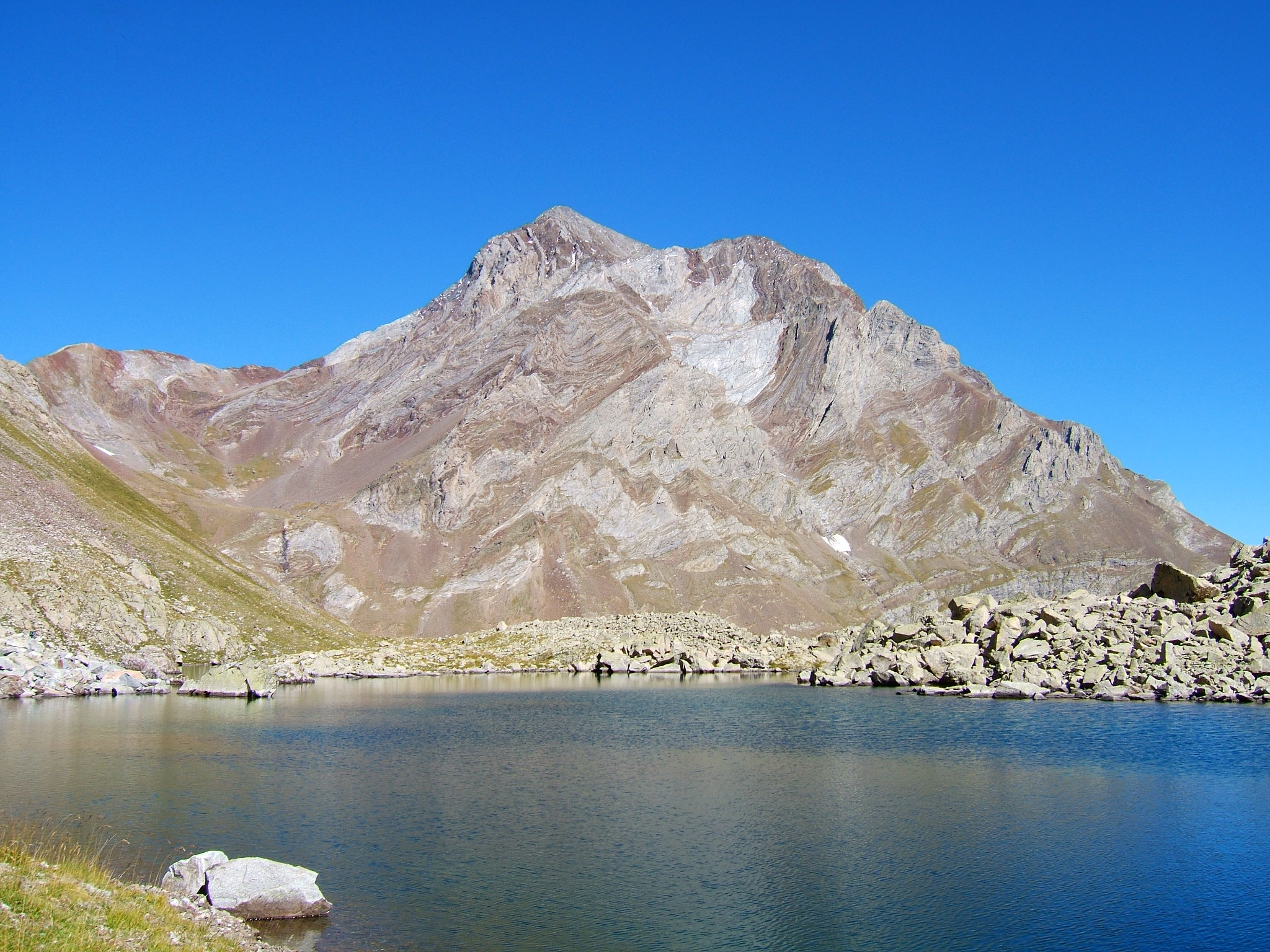 The West face of the Vignemale from the lake "Ibón de los Batans"